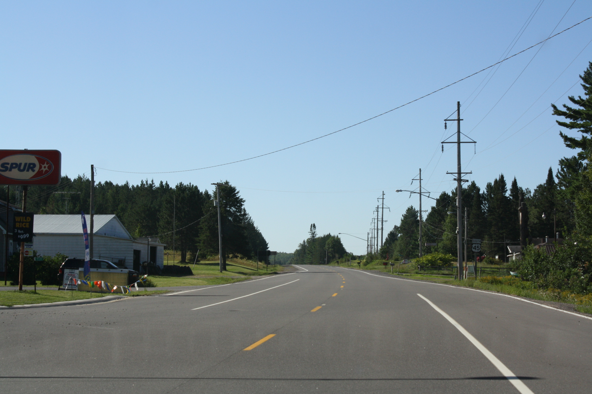 Looking south at downtown Paulding, Michigan on U.S. Route 45.